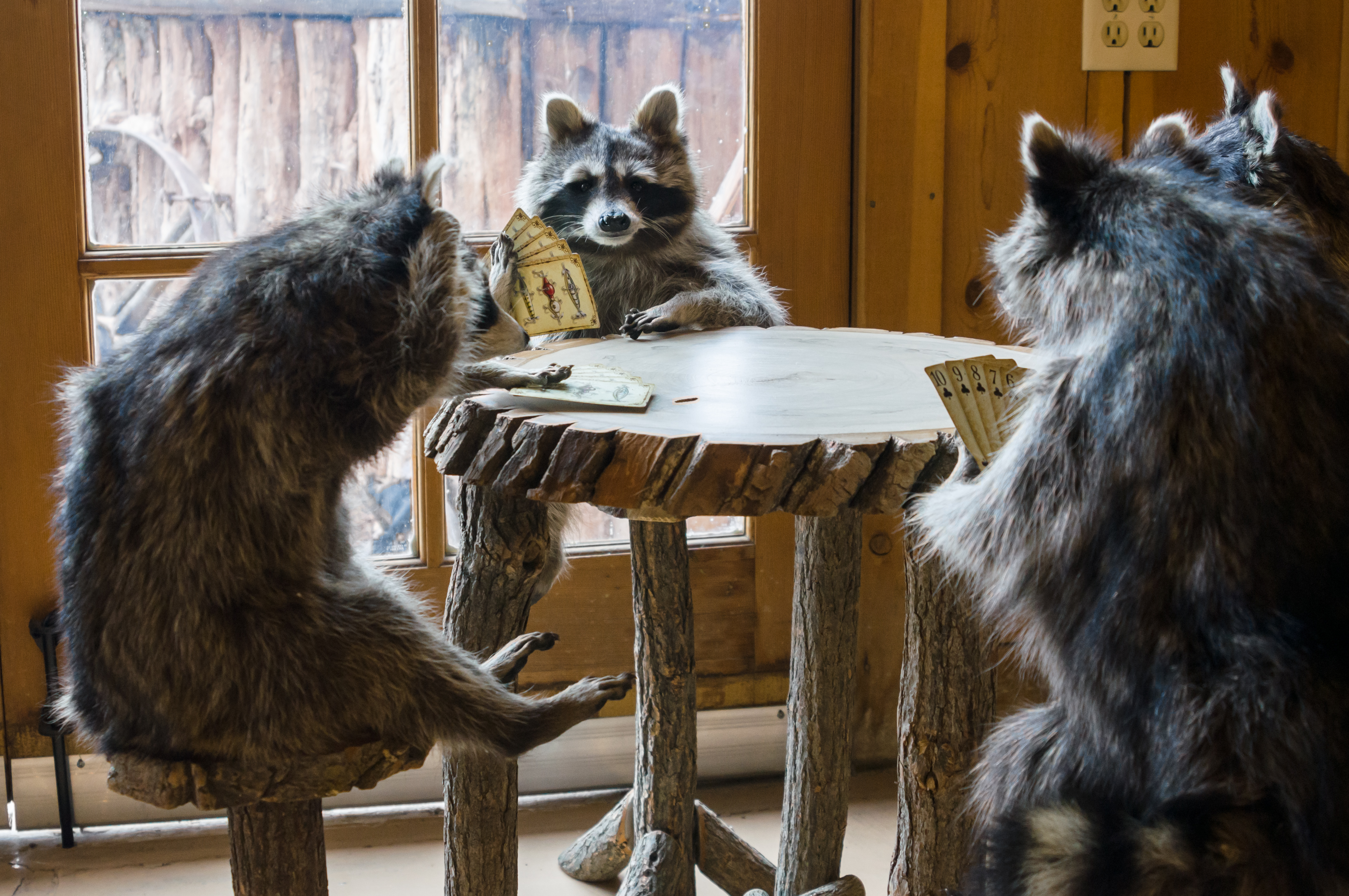 Racoons playing poker at Calvin T's Smoking Gun BBQ, Kanab, Utah